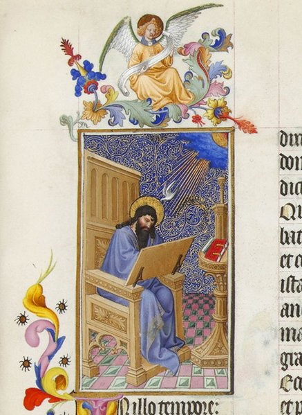 This evangelist is Luke, in a miniature in the middle of the gospel according to Luke, but one of the painter made a mistake : he represents the symbol of Matthew, the angel, on the top of the miniature